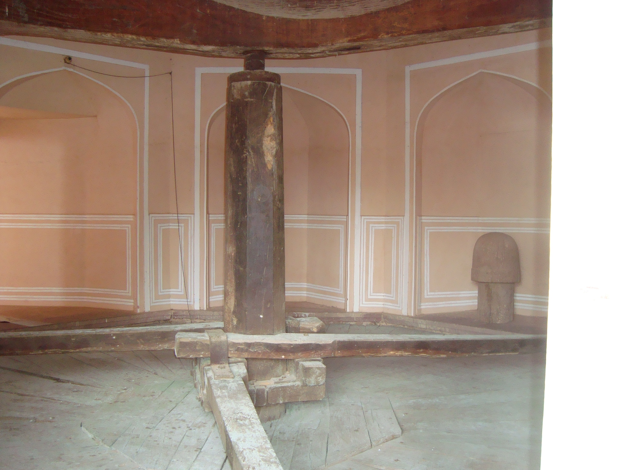 Drilling complex of the Cannon foundry at Jaigarh Fort. Power for the drilling complex was generated by rotating the spindly by using 4 Oxen.